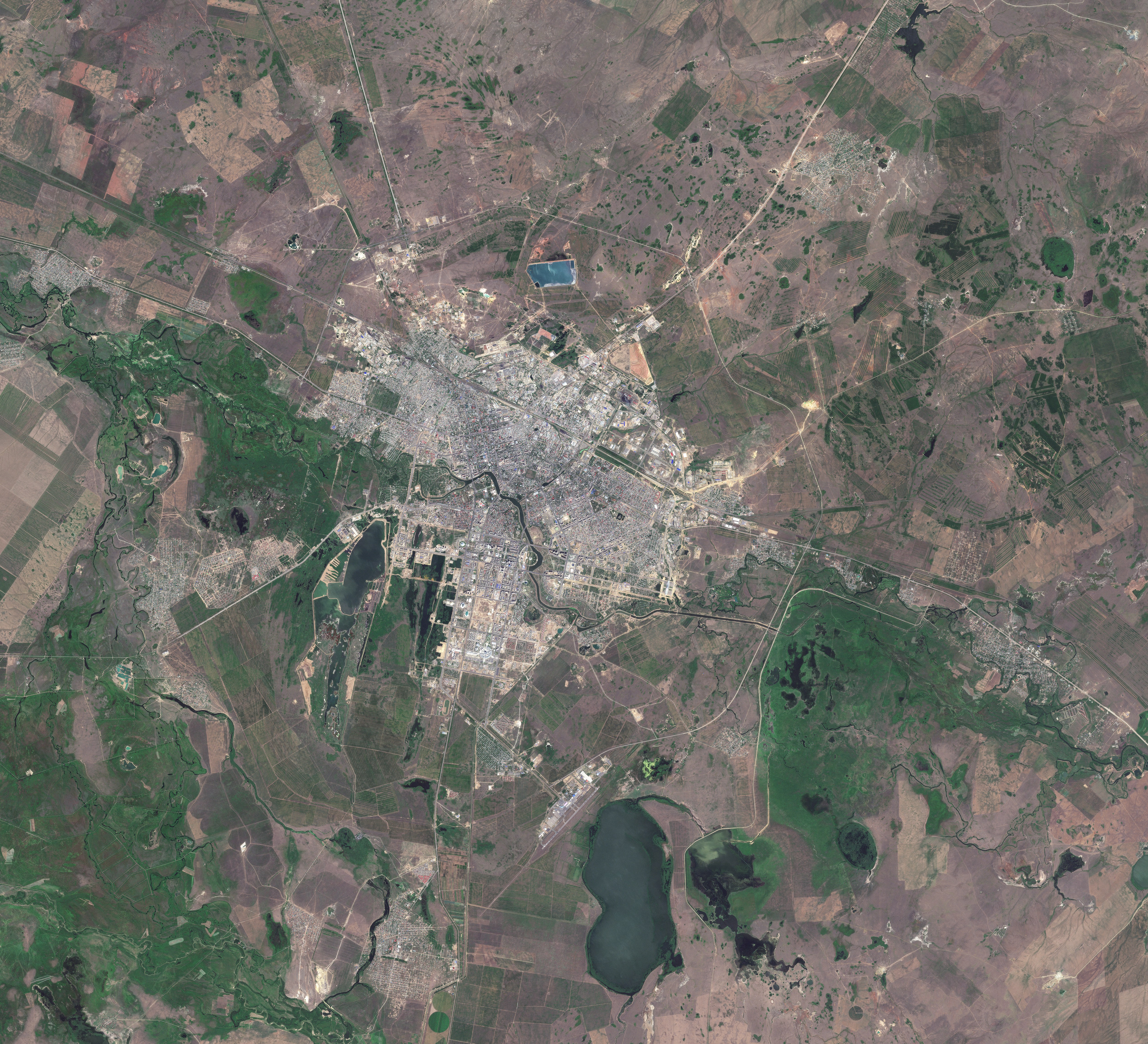 Kazakhstani capital Nur-Sultan City and vicinities, satellite image of ESA Sentinel-2, spatial resolution 10 m, near natural colors